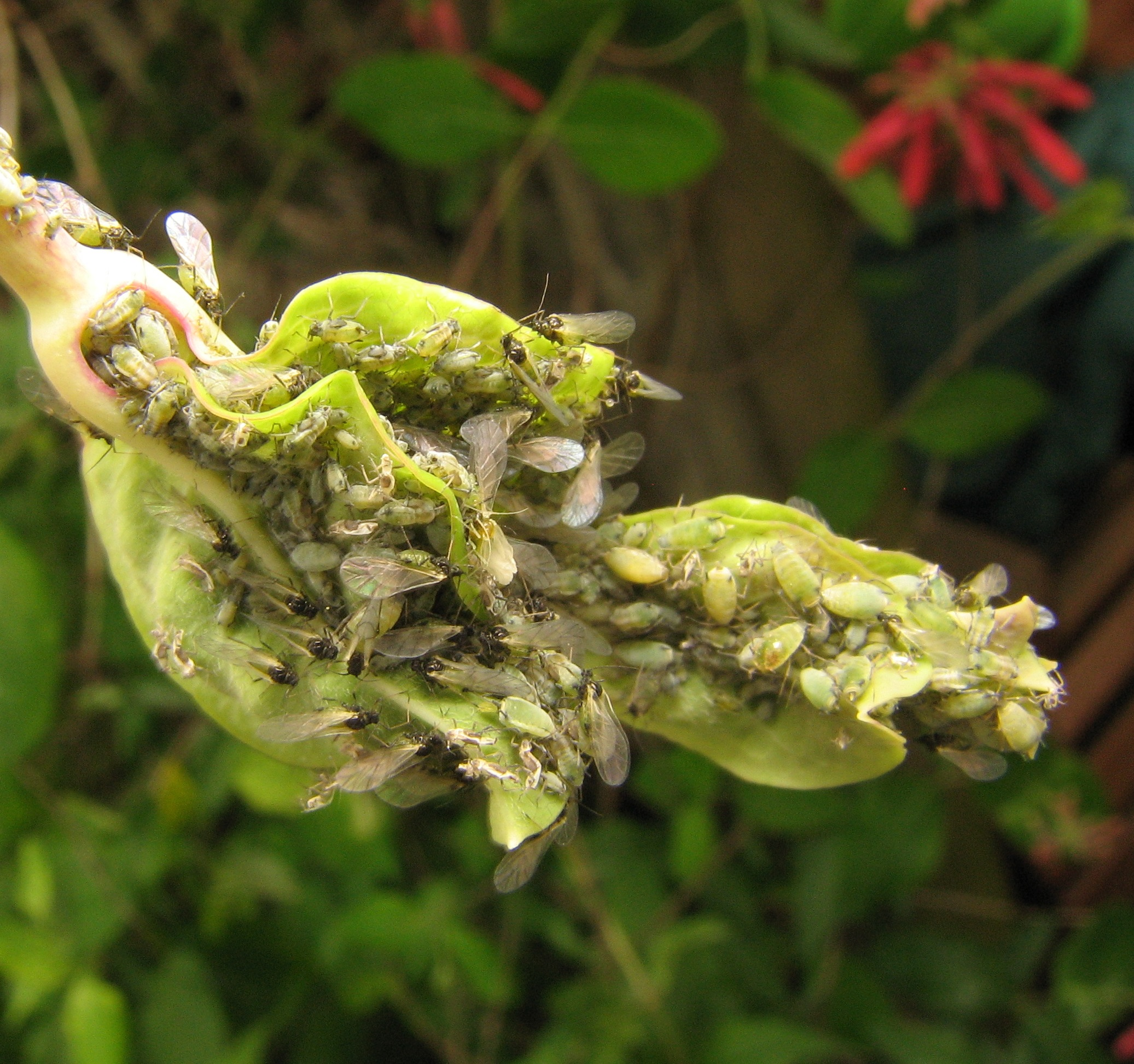 Aphids on trumpet honeysuckle, Hyadaphis, probably Hyadaphis tataricae. Churchville Nature Center, Bucks County, Pennsylvania, USA.